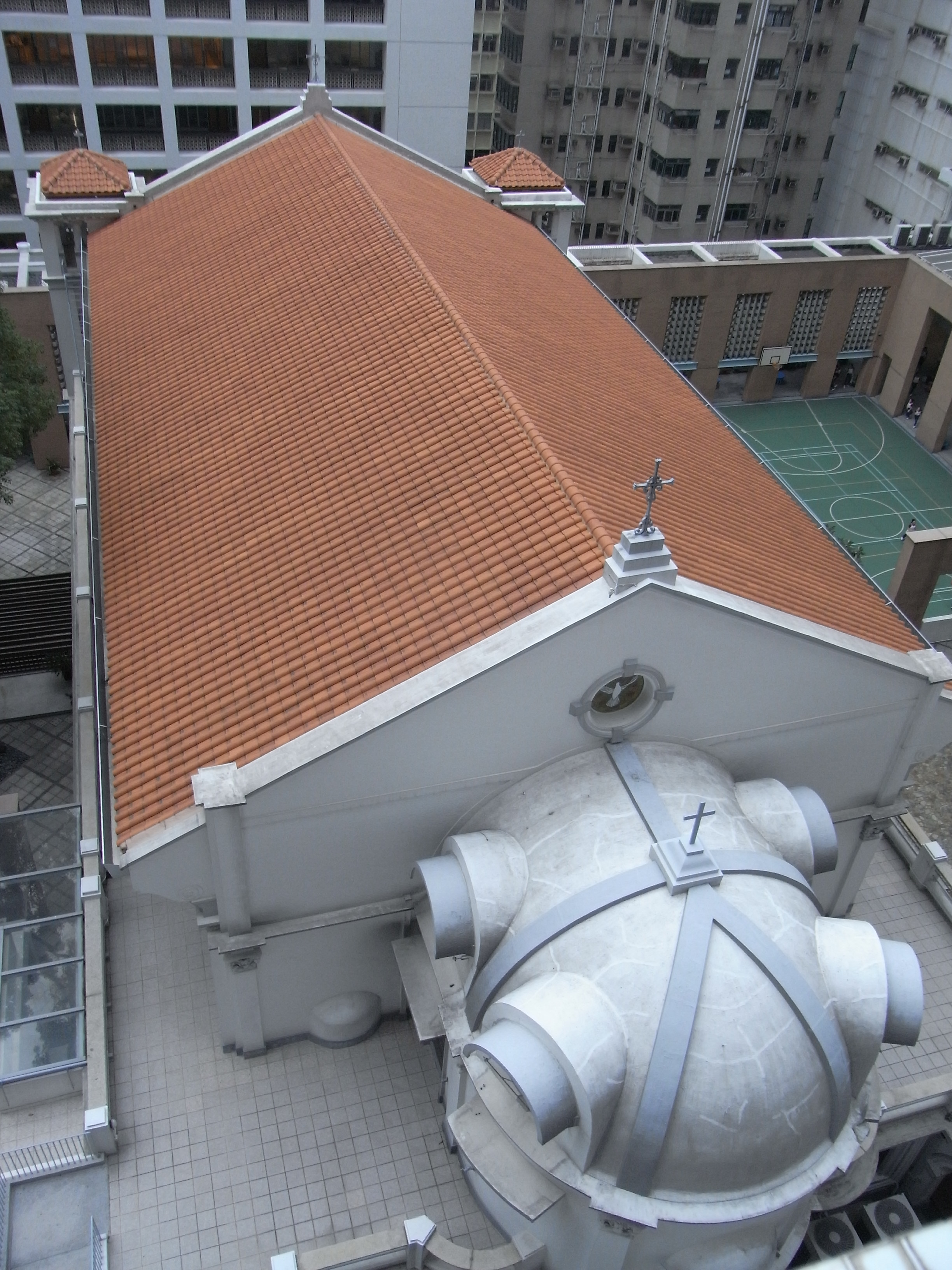 香港島zh:半山區